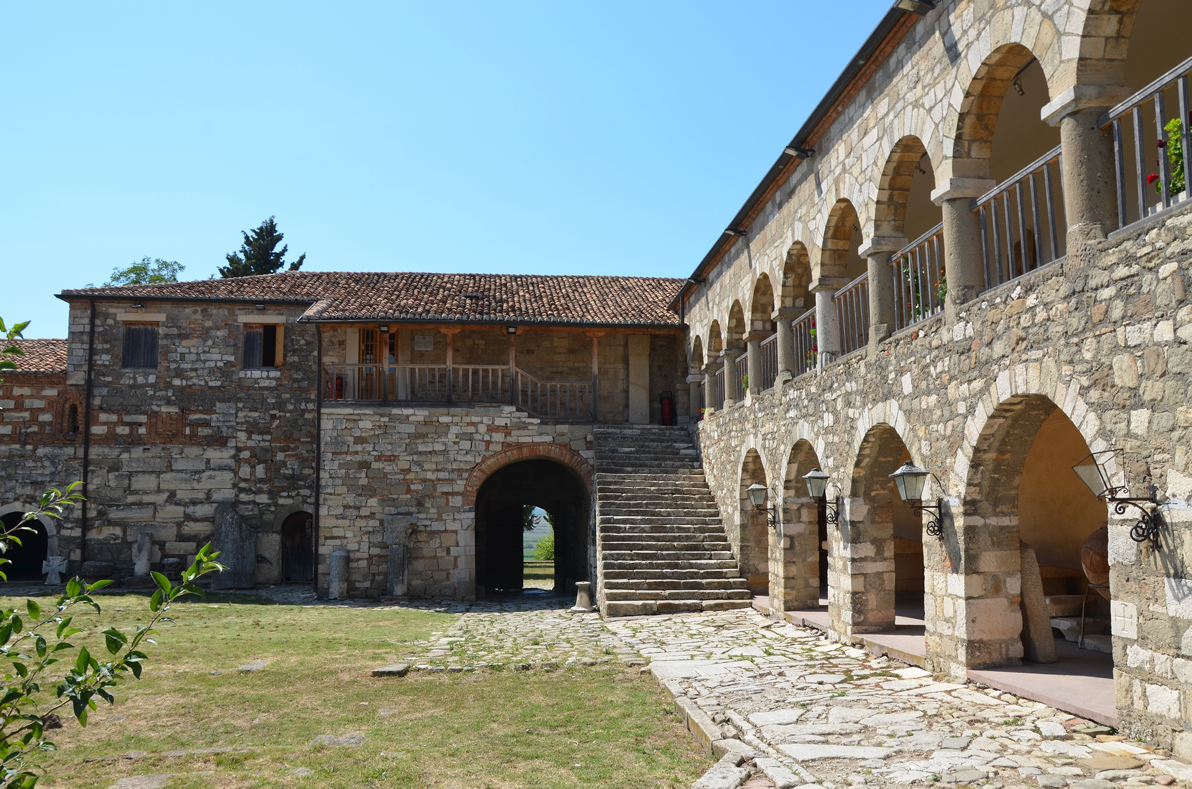 The museum of Apollonia was opened in 1958 to display artefacts found at the nearby Greek Illyrian archaeological site of Apollonia, Albania